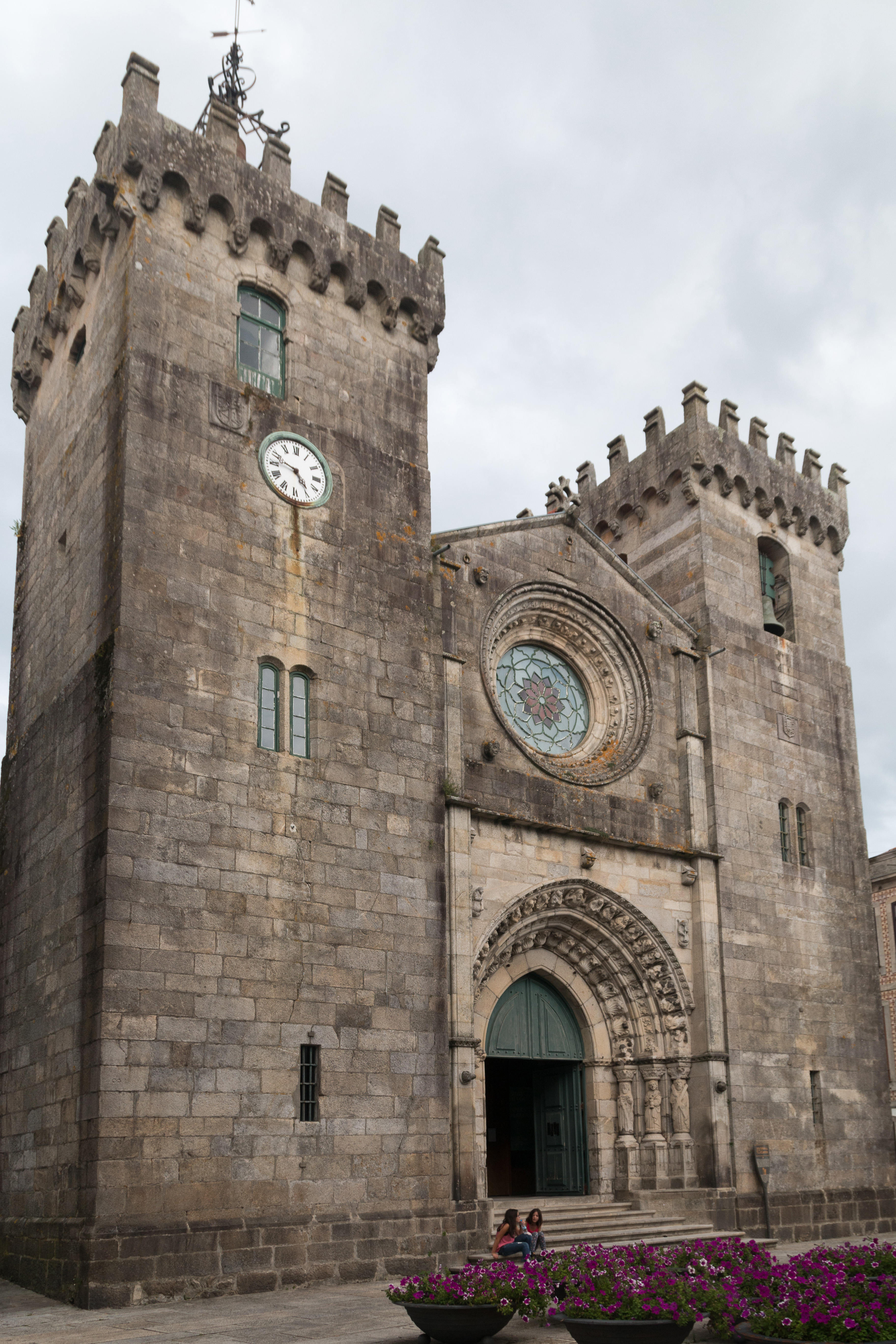 Cathedral, parish church of Viana do Castelo.